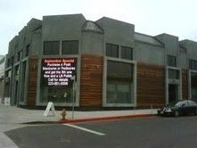 This is 7551 Sunset Blvd. the location of the 1969 nightclub "Thee Experience" as it is today in 2011.The photo was taken on a Blackberry phone and uploaded by Punkinfo.in October of 2011